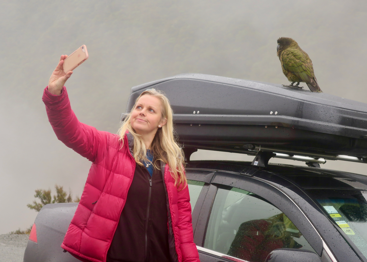 Scientist, Dr. Victoria Metcalf encounters a Kea, the New Zealand alpine parrot in one of the parking lots at Arthur's Pass